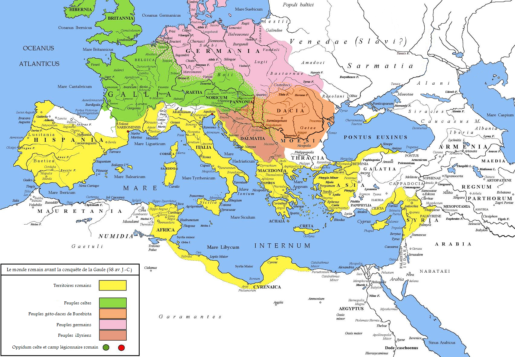 The Roman world in 58 BC, before Gallia's conquest by Caesar. (Note: Map doesn't show subordinate Roman client kingdoms in Anatolia and the Levant.)